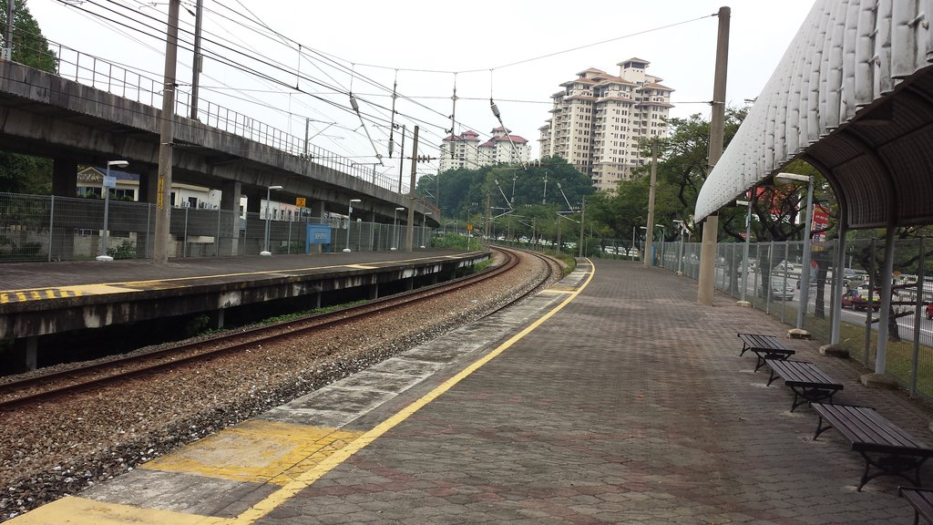 A picture of Seputeh Station.